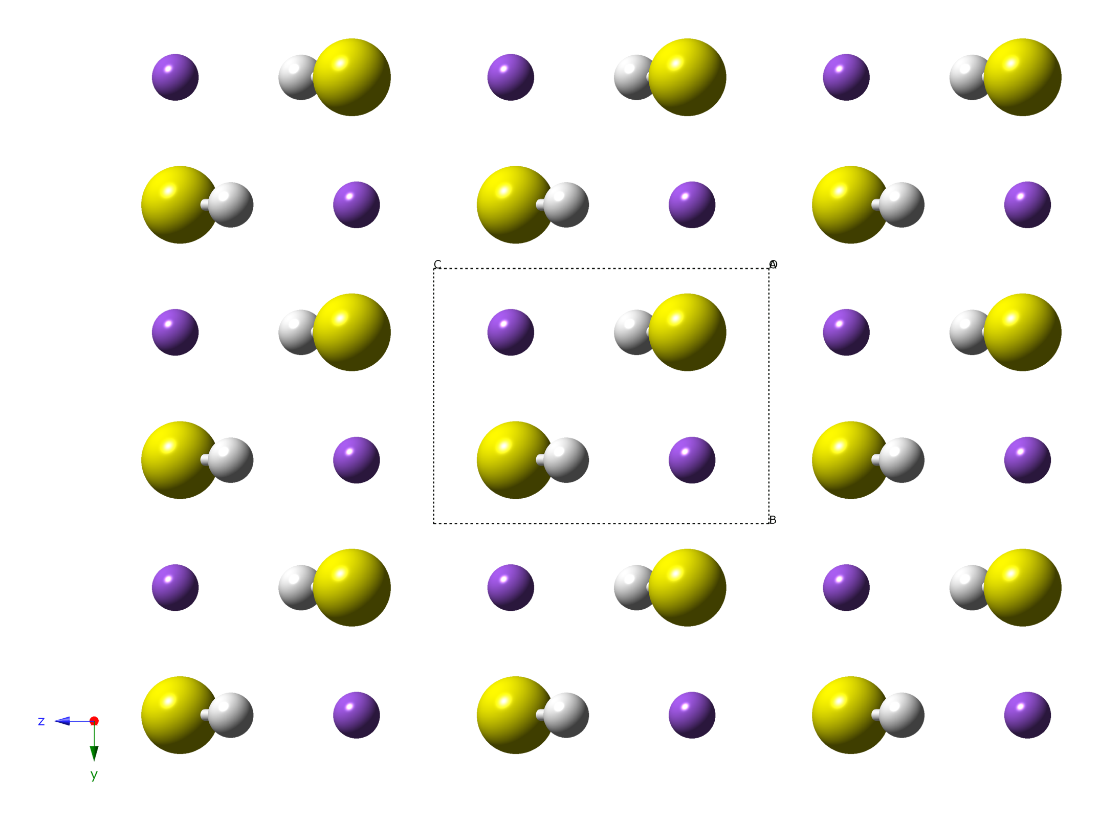 Ball-and-stick diagram of part of the crystal structure of the low-temperature modification (monoclinic, P21/m) of sodium hydrosulfide, NaSH. Colour code: Sodium, Na: purple Sulfur, S: yellow Hydrogen, H: white Crystal structure from Z. anorg. allg. Chem. (1991) 598, 175-192. Image generated in CrystalMaker 8.3.